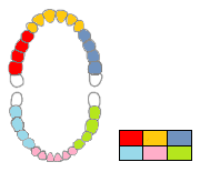 Diagram showing division of teeth into sextants and table for recording BPE scores